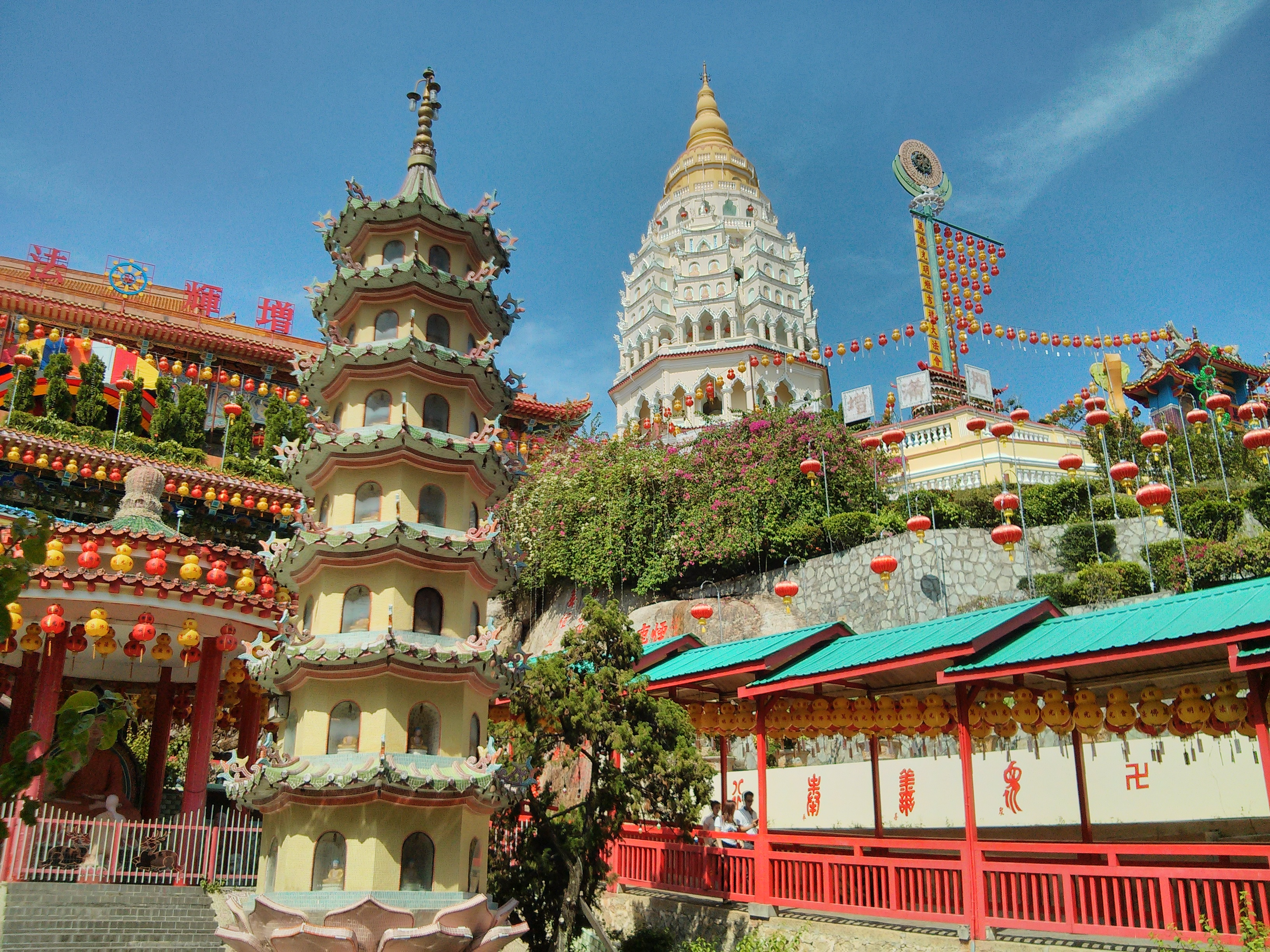 Kek Lok Si Temple